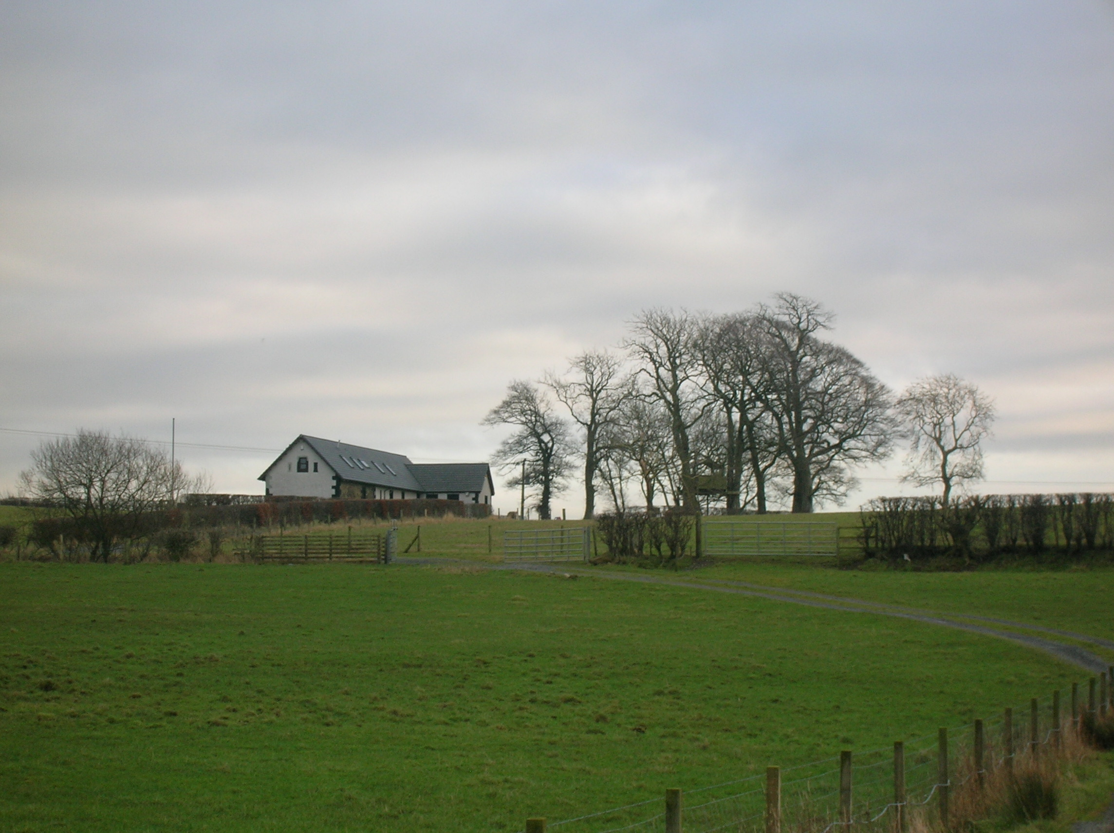 Bogflat farm near Chapeltoun in East Ayrshire. 2007.